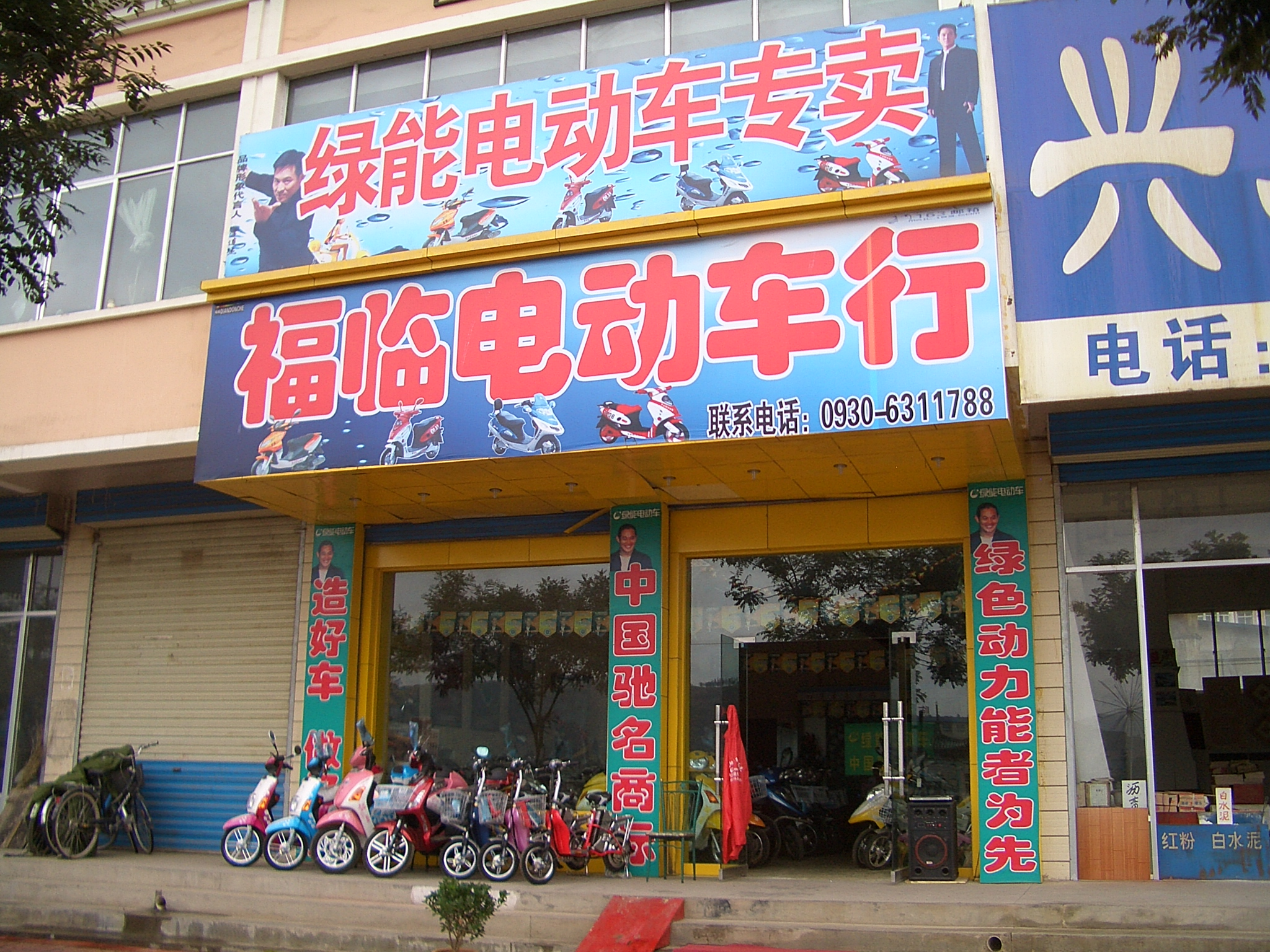 An electric bicycle shop on the Daxia River esplanade in Linxia City